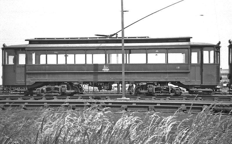 Grimsby & Immingham Electric Railway - tramcar